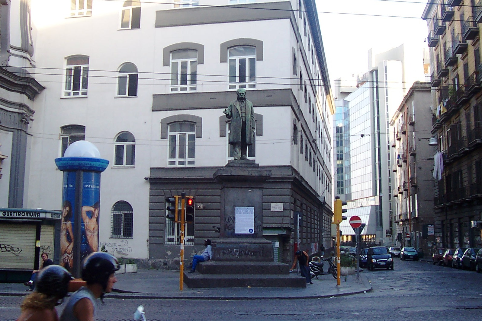 Bronze statue of Ruggiero Bonghi, Corso Umberto I, Naples.